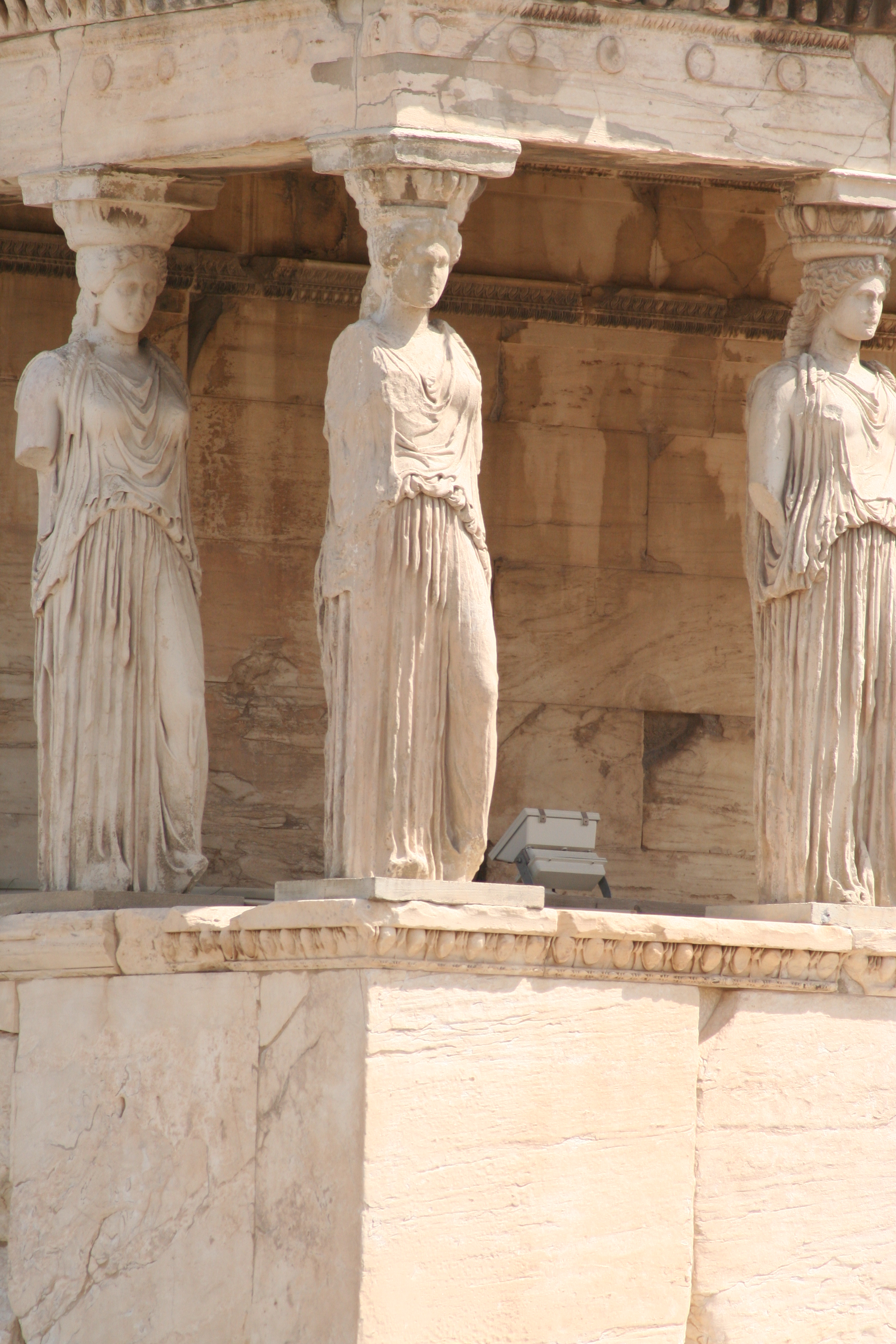 Caryatids of the Erechtheion, detail. Location: Acropolis of Athens, Greece. Photographer: Jeje42